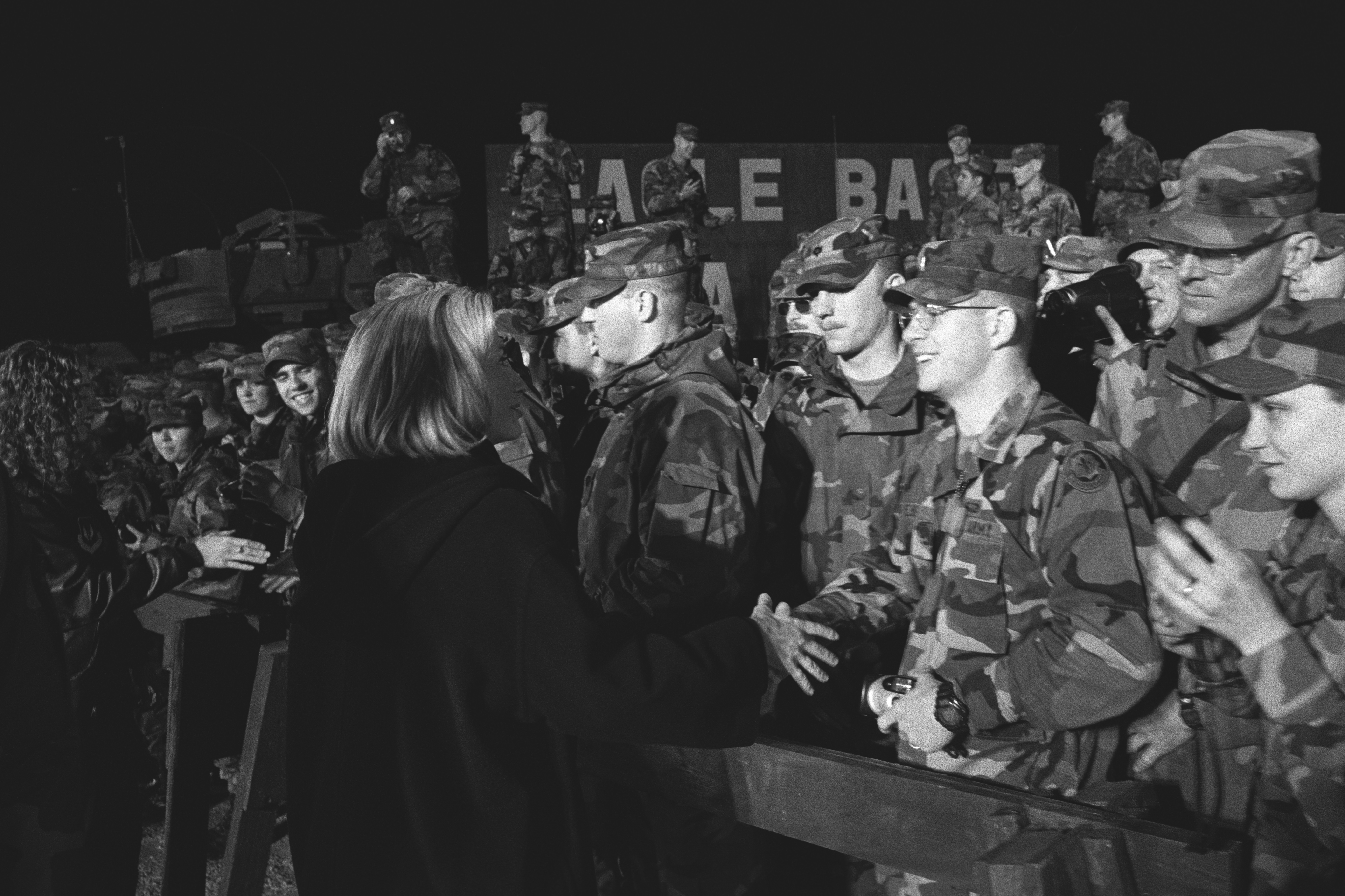 December 22, 1997 (Credit: William J. Clinton Presidential Library) Hosted by the Clinton Library and the Clinton Foundation, the document release was spearheaded by CIA’s Historical Review Program (HRP), which identifies, collects and produces historically relevant collections of declassified materials. The Bosnia collection—the youngest ever released in HRP’s 20-year existence—is available online at A video recording of the symposium is available at